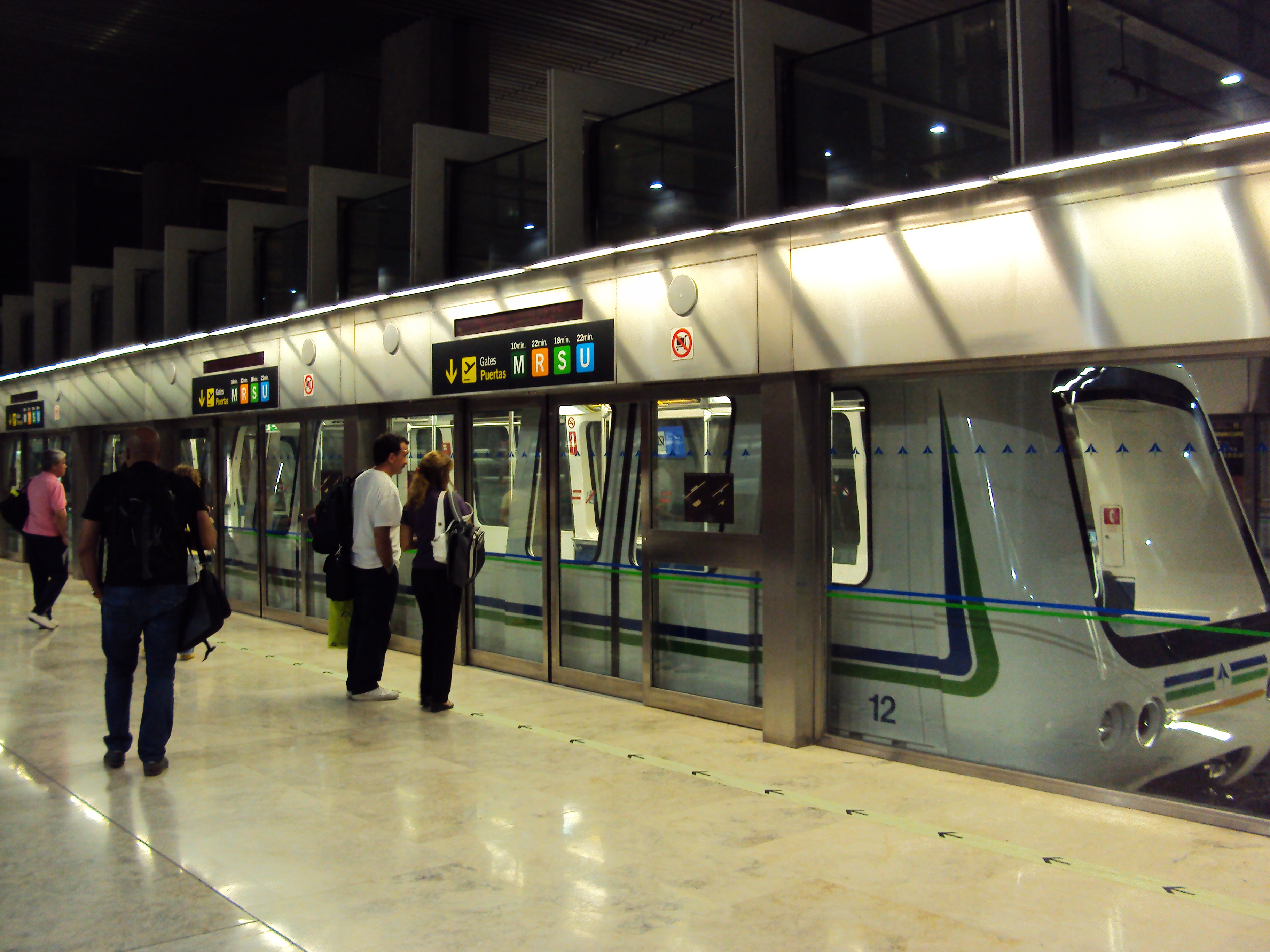 This is the automatic people mover of madrid barajas airport